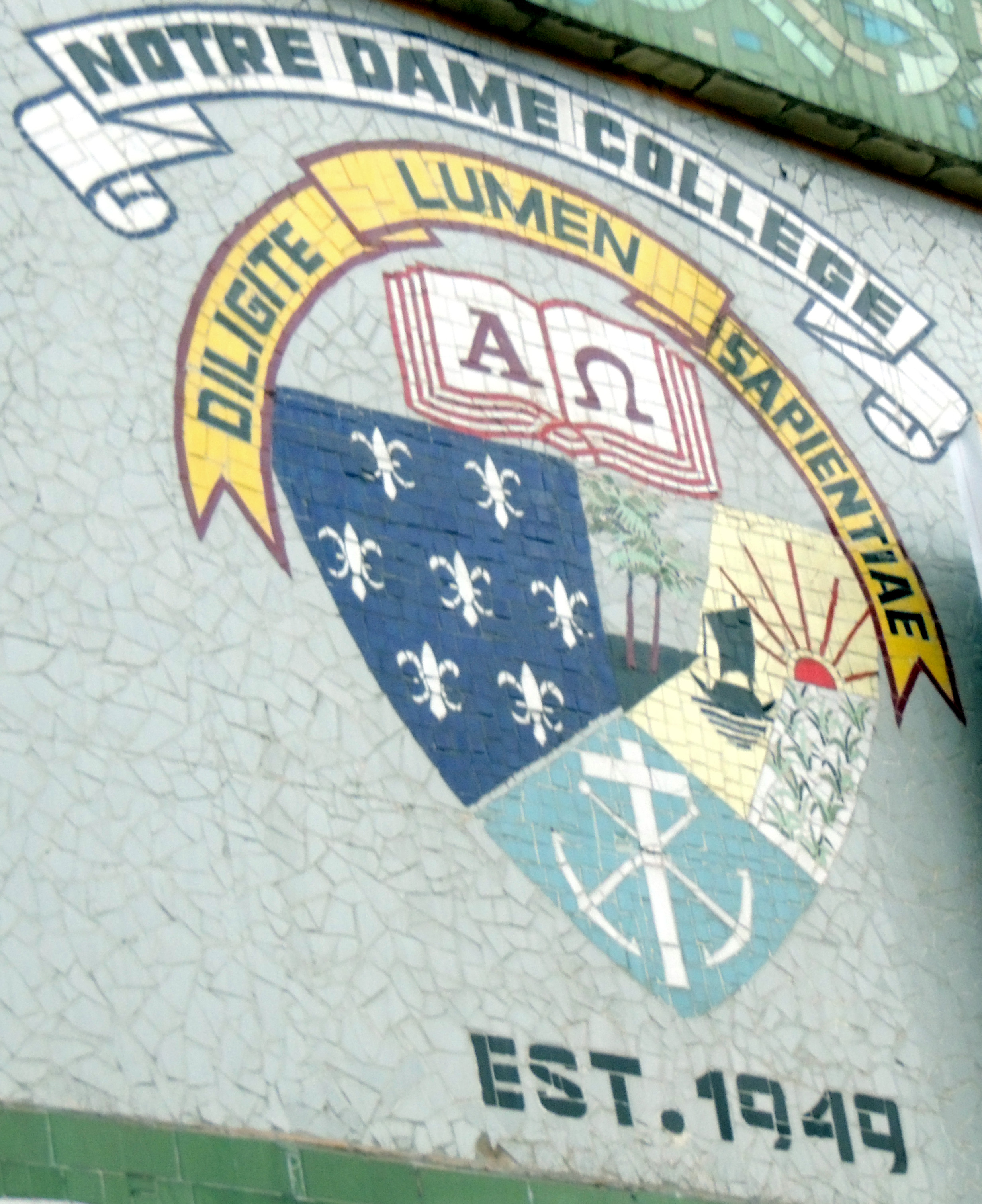 Logo at the front gate of Notre Dame College, Dhaka